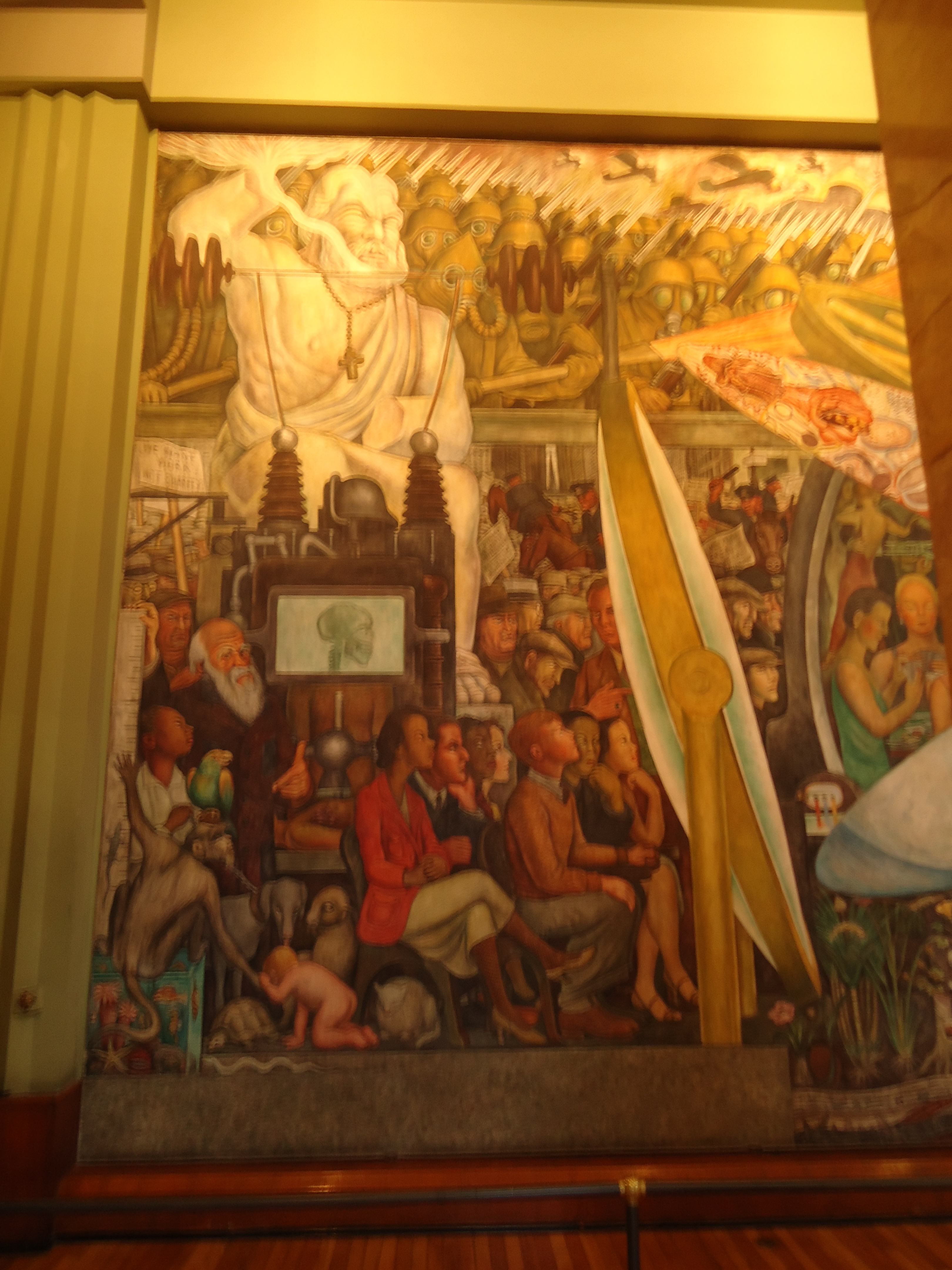 Man at the Crossroads by Diego Rivera in the Palacio de Bellas Artes, left Detail